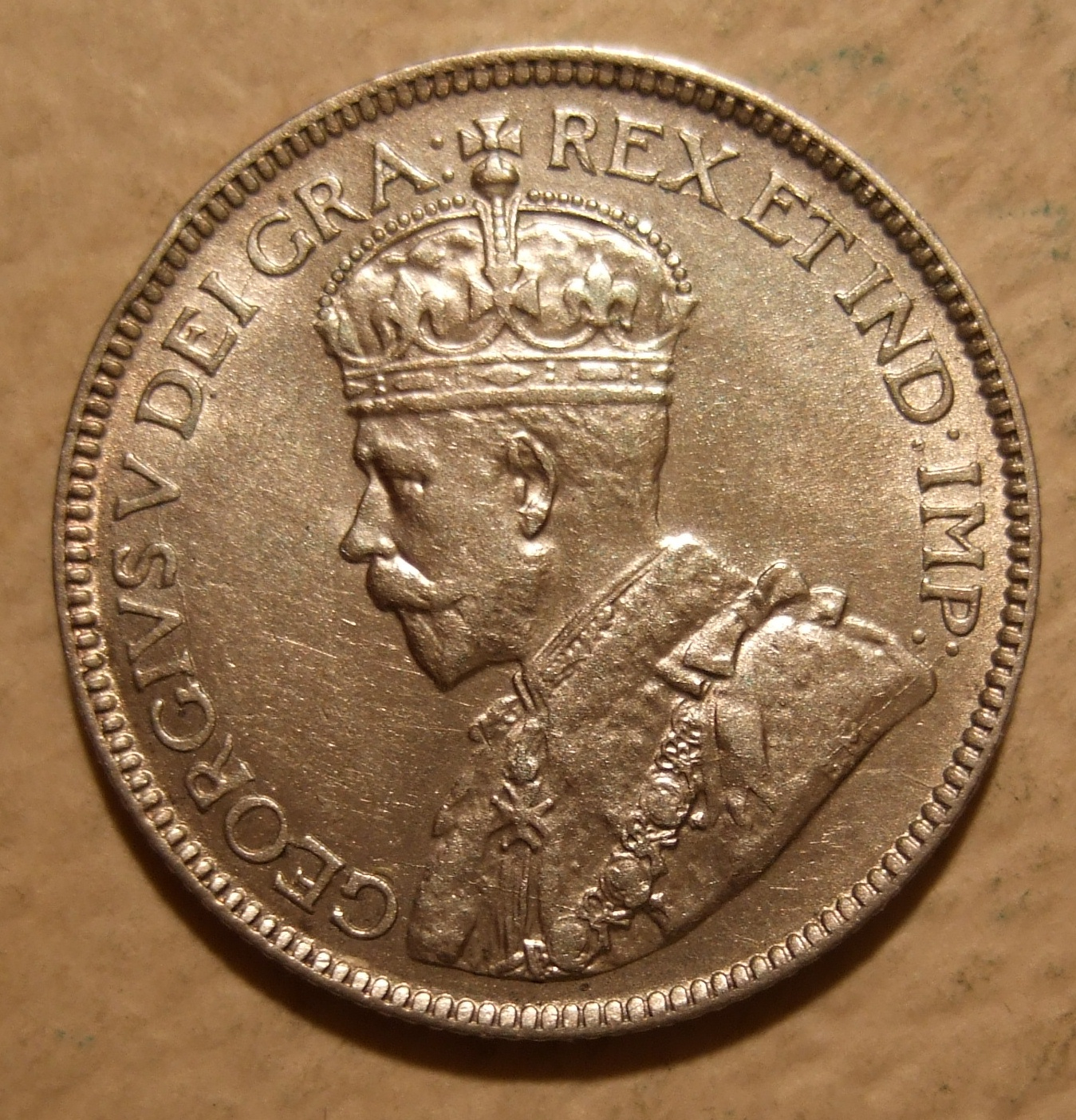 CANADA, GEORGE V 1917 ---25 CENTS b